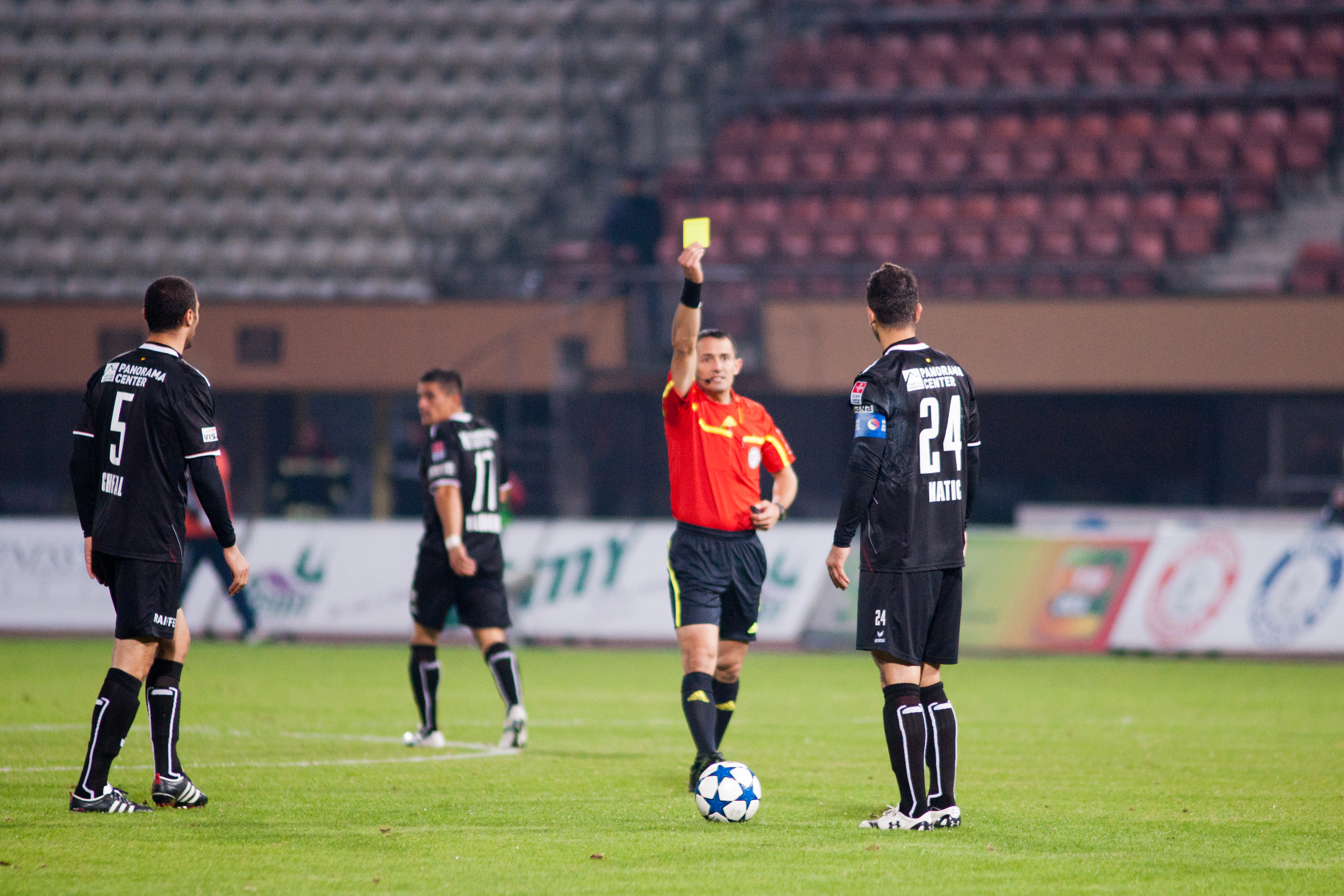 The making of this document was supported by Wikimedia CH. (Submit your project!) For all the files concerned, please see the category Supported by Wikimedia CH. Lausanne Sport vs. FC Thun - 22.10.2011